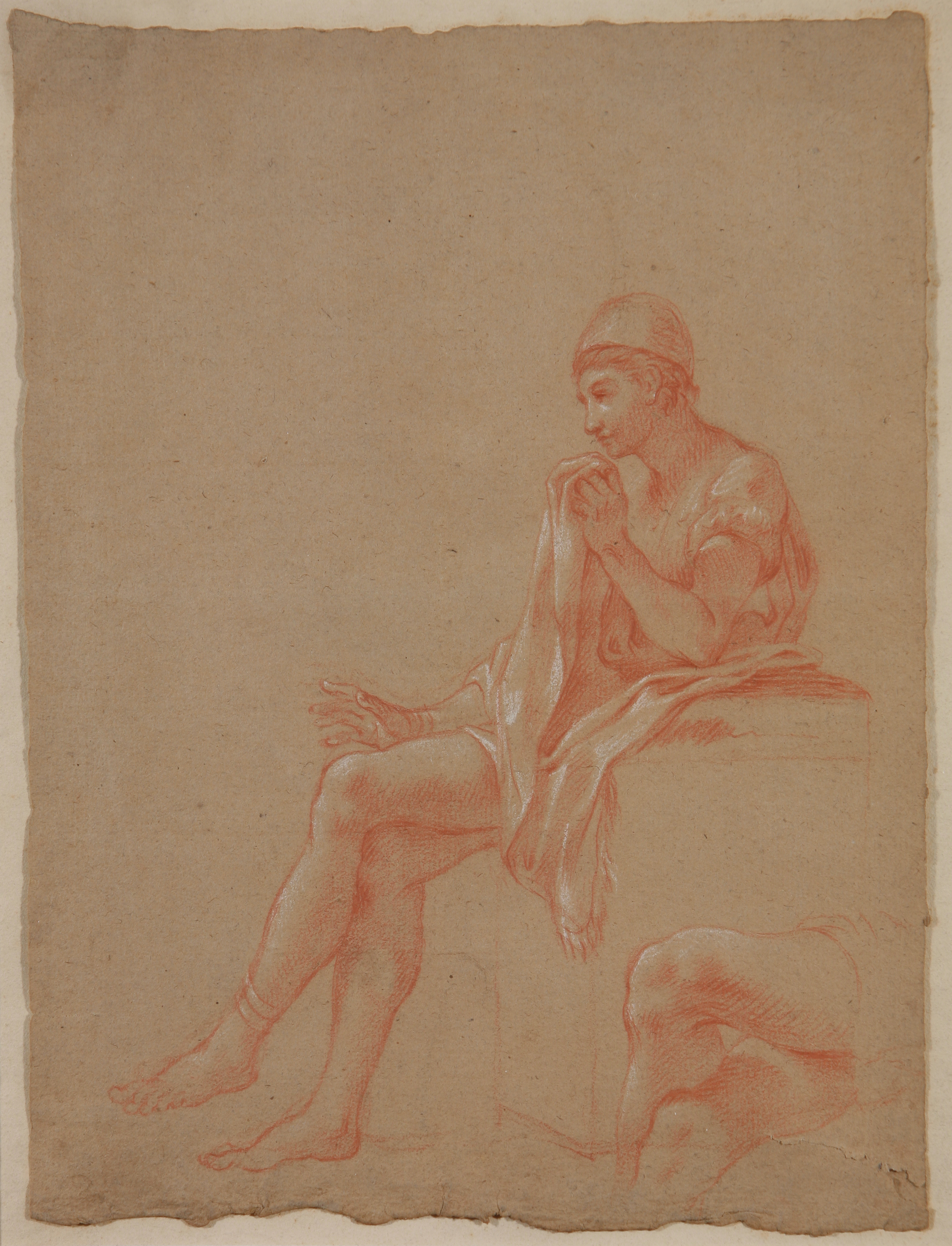 "Seated Man Holding a Scarf", red chalk on paper